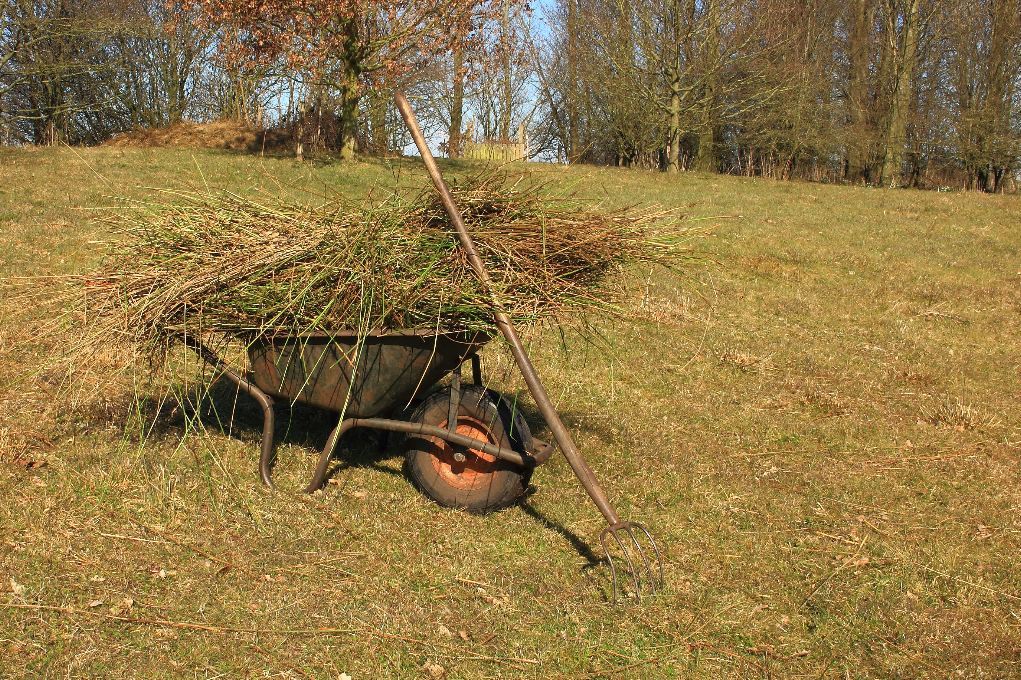 pitrus (Juncus effusus) for processing in eco bags, branches shiver and mice pyramids.